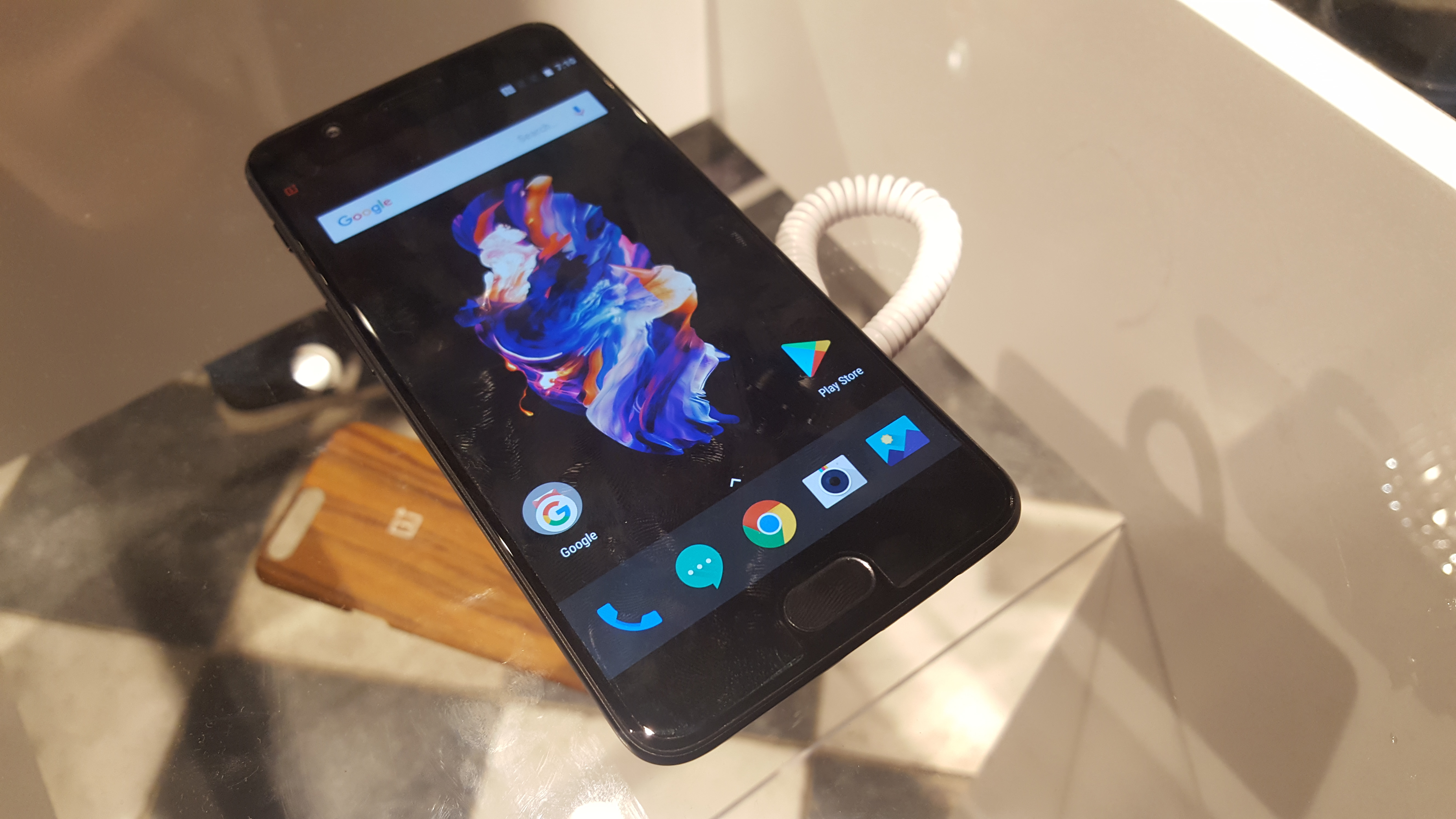 One of the first Oneplus 5's on display at a London popup shop on launch day - in Modern Society, E2 7DJ